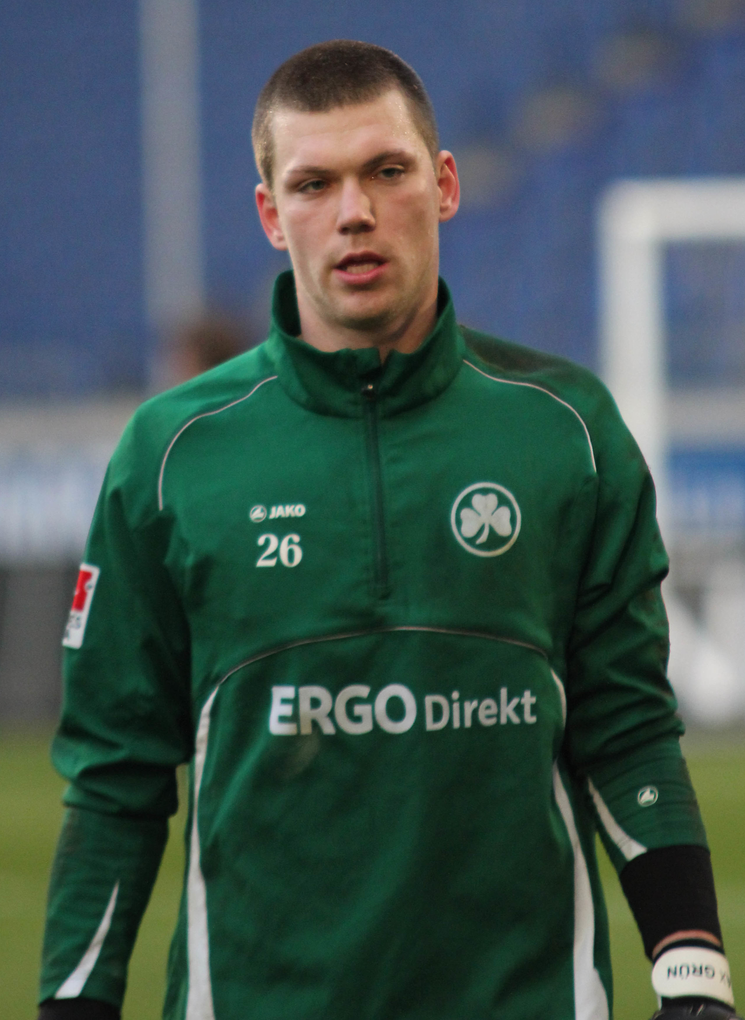 German football goalkeeper Max Grün, SpVgg Greuther Fürth